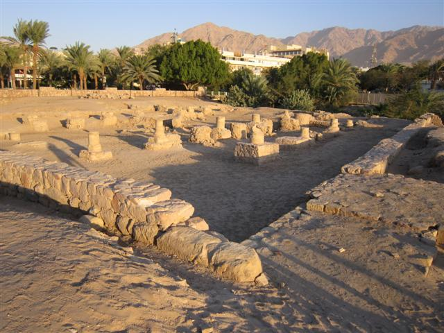 A view of Ayla and the mountains to the North of Aqaba